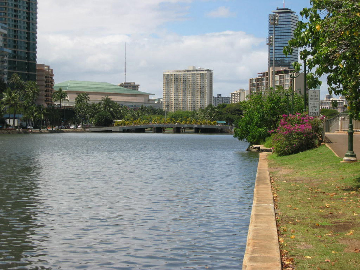 The Ala Wai canal in Honolulu, Hawaii, USA.